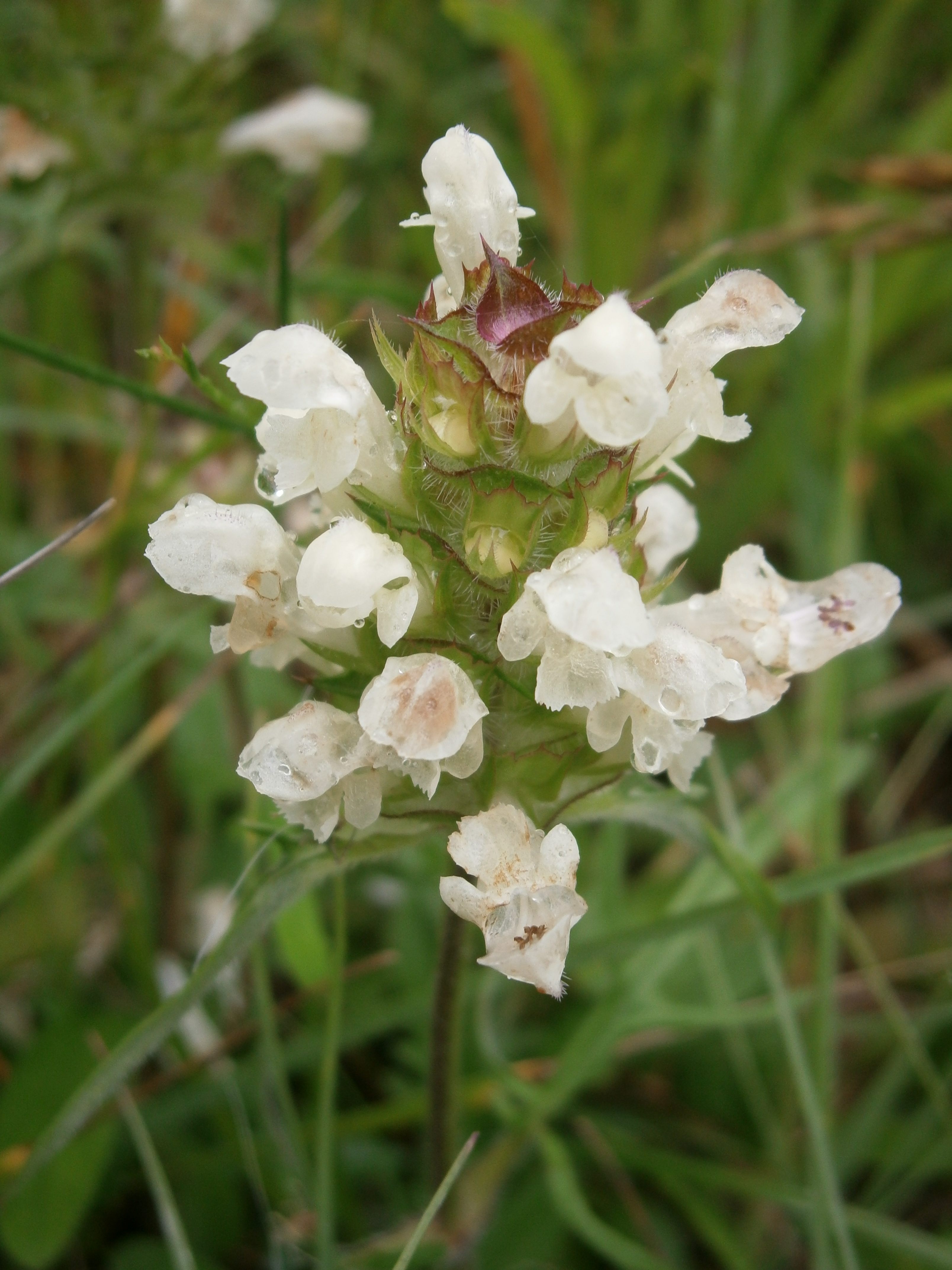 Prunella laciniata close-up